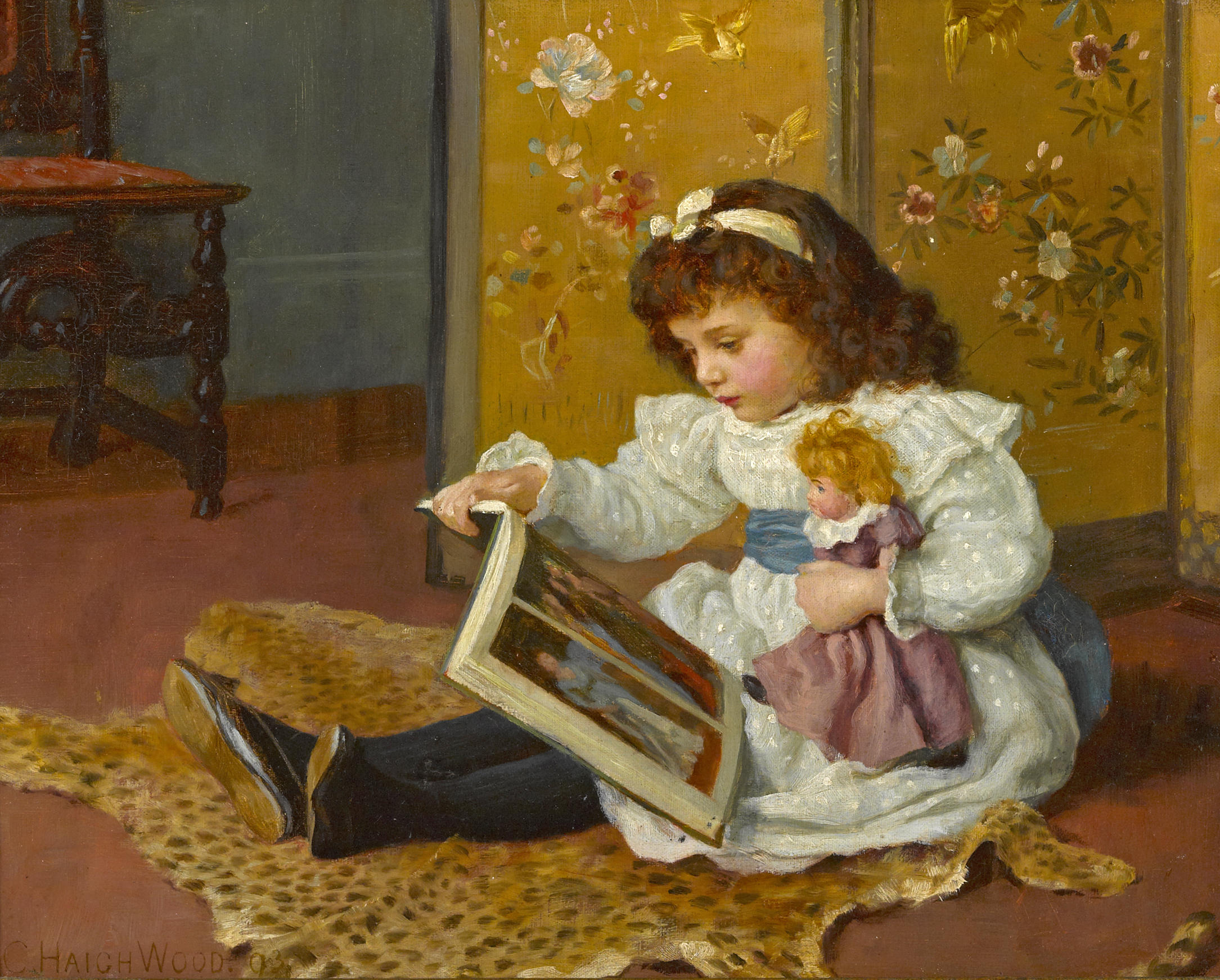 Storytime